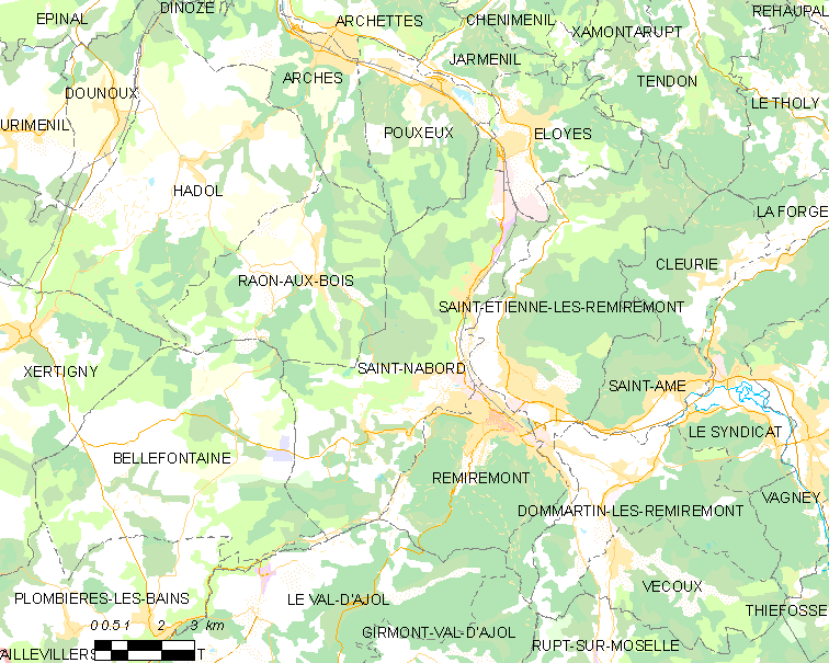 Map of French municipality Saint-Nabord